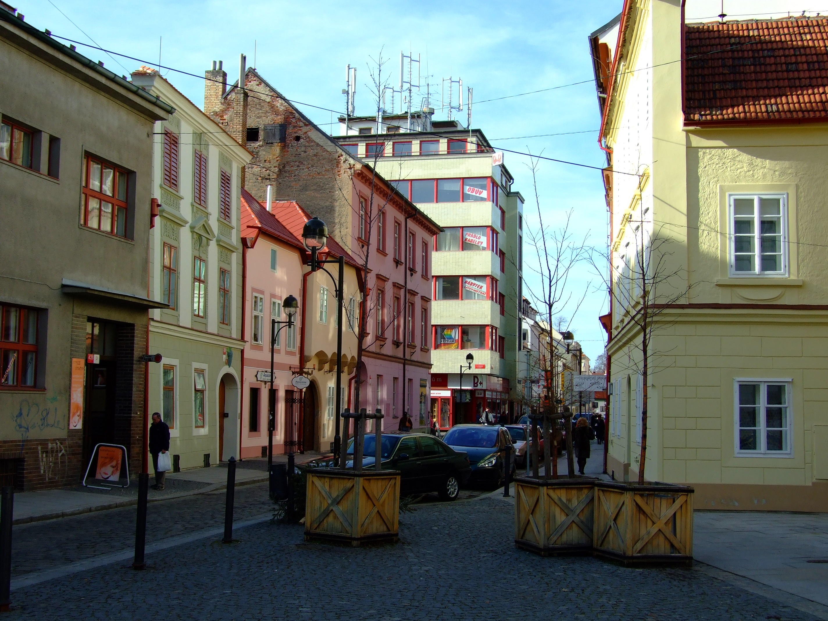 View of Široká St in České Budějovice city center, Czech Republic